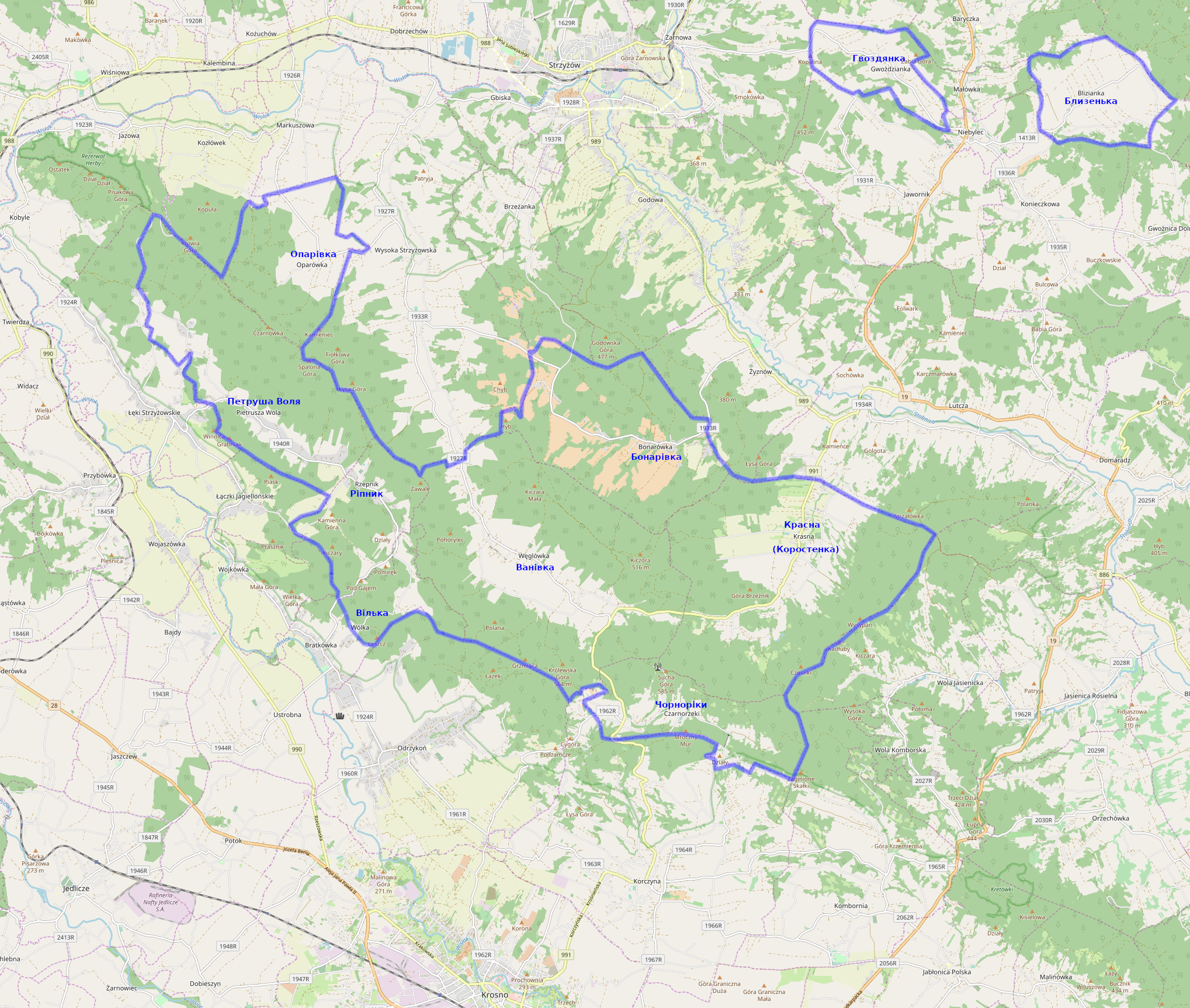 Ukrainia language Island between Krosno and Strzyżów in Poland (Zamieszańcy, замішанці)